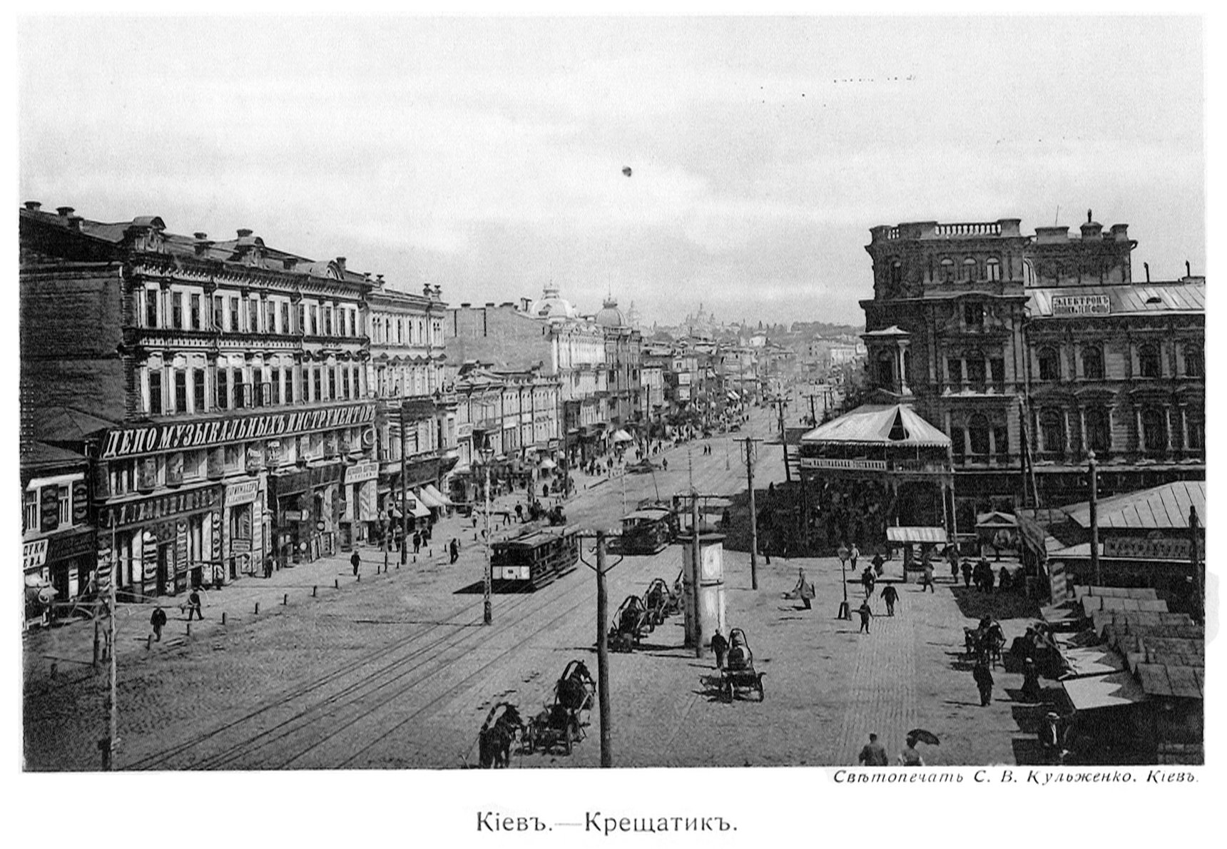 Types of Kiev. [Album phototypes]. Kiev: Svetopechat Kulzhenko S. V.